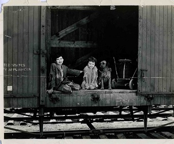 Joseph Depew (left), Helen Rowland (right) and Rags the dog in Timothy's Quest (1922), directed by Sidney Olcott.